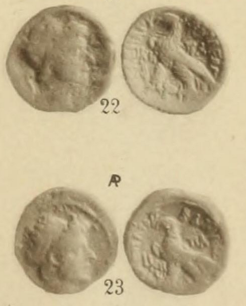 Drachms depicting Ptolemy XII. Paphos mint. 54BC link 1 (as it appear in the family tree), link 2 (the plates page or plate LXI), link 3 (overview page 507), (page XLVI says that Plate LXI, coins 22 and 23, are the series 1838 of coins.)